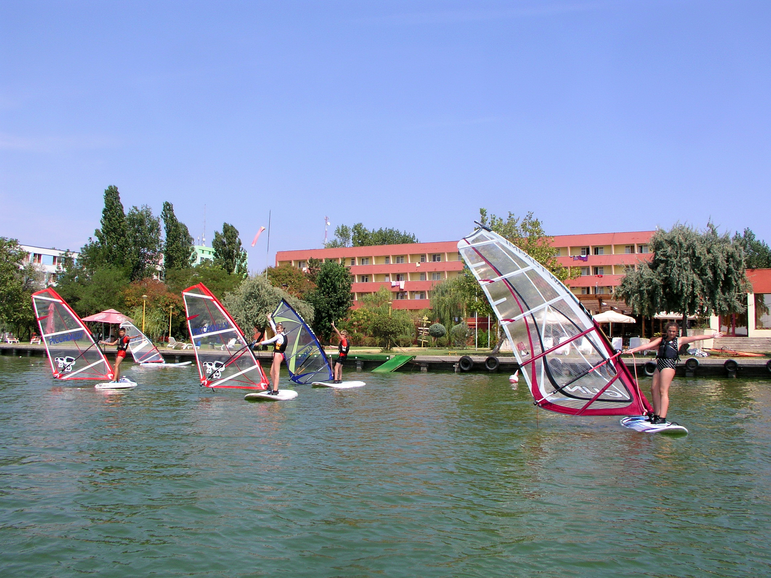 At windsurfing school Mamaia